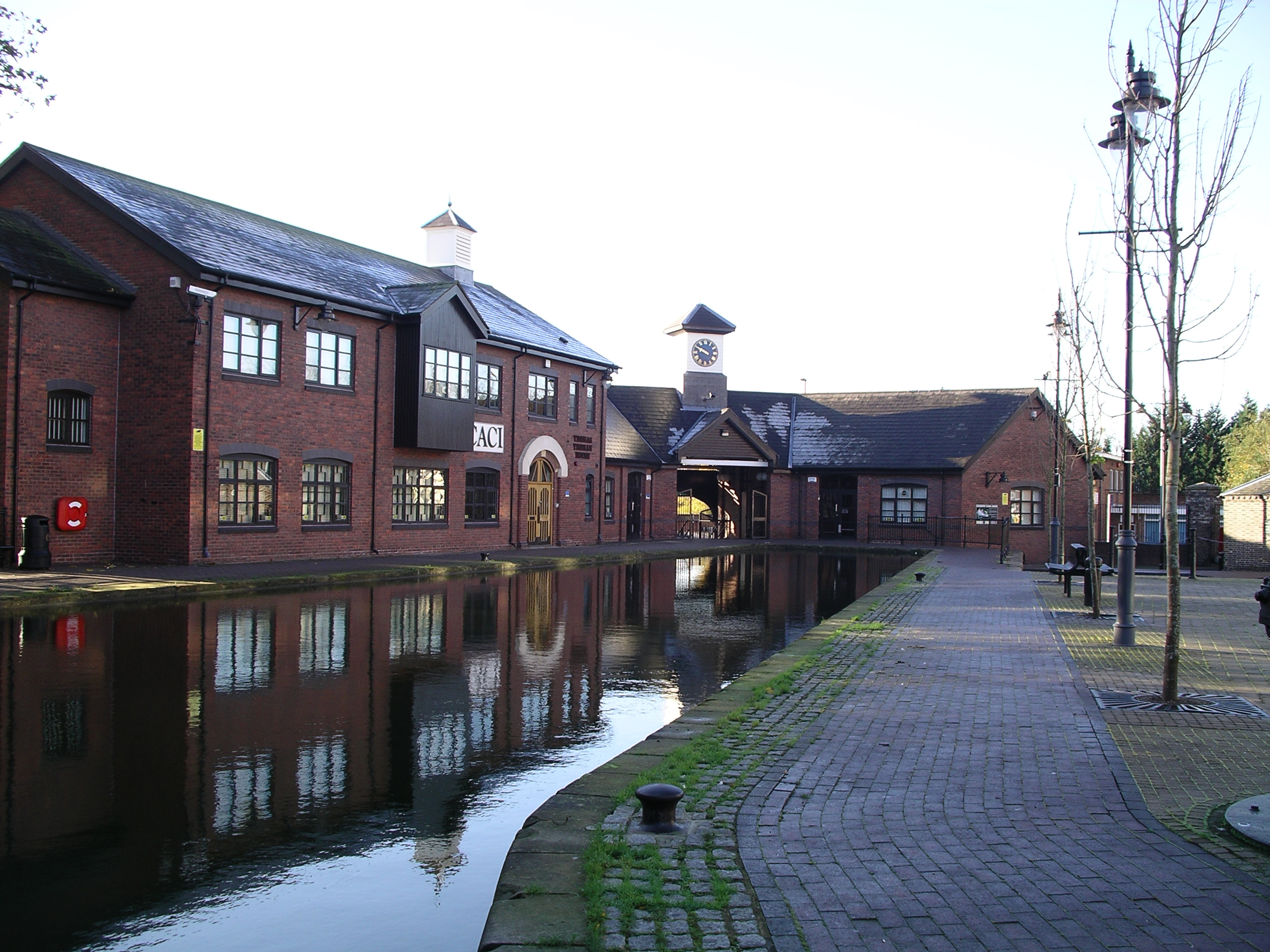 Photo taken on 19 November 2006 of the most south-eastern part of Coventry Canal in the Canal Basin, Coventry, England